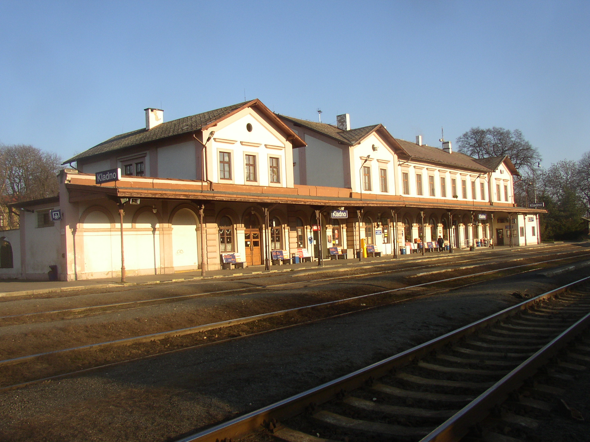 Building of Kladno railway station (colloquially still called by its ancient name Vejhybka) on lines 120 Prague - Rakovník and 093 Kralupy nad Vltavou - Kladno. A view towards east, in Prague direction.